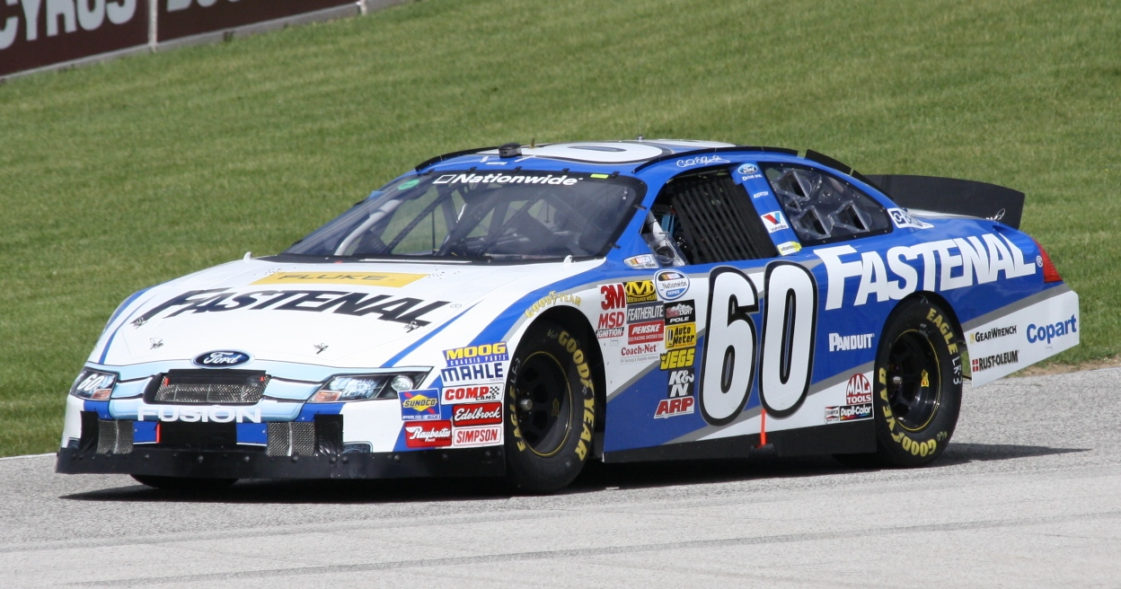 The NASCAR racecar for driver Carl Edwards at the 2010 Bucyrus 200 at Road America. He ended up winning the race.